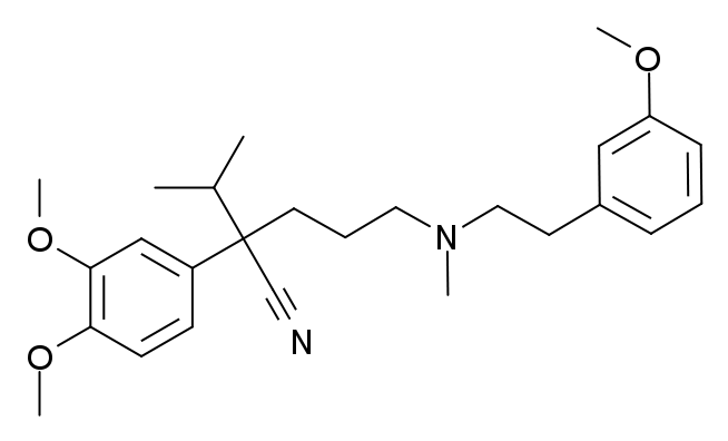 Structure of devapamil